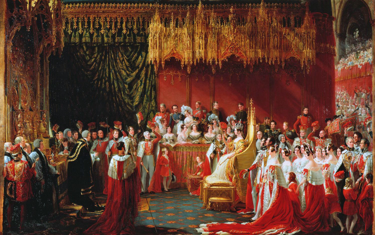 Coronation of Queen Victoria in Westminster Abbey 28 June 1838 by Sir George Hayter